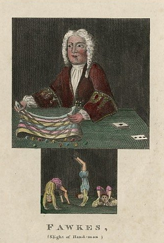 Hand-coloured detail of the conjuror Isaac Fawkes taken from souvenir fan of Bartholomew fair. Original probably painted by Thomas Loggon around 1740, though possibly earlier. Colourist unknown